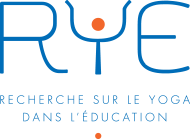 Logo of R.Y.E. (Research on Yoga in Education)